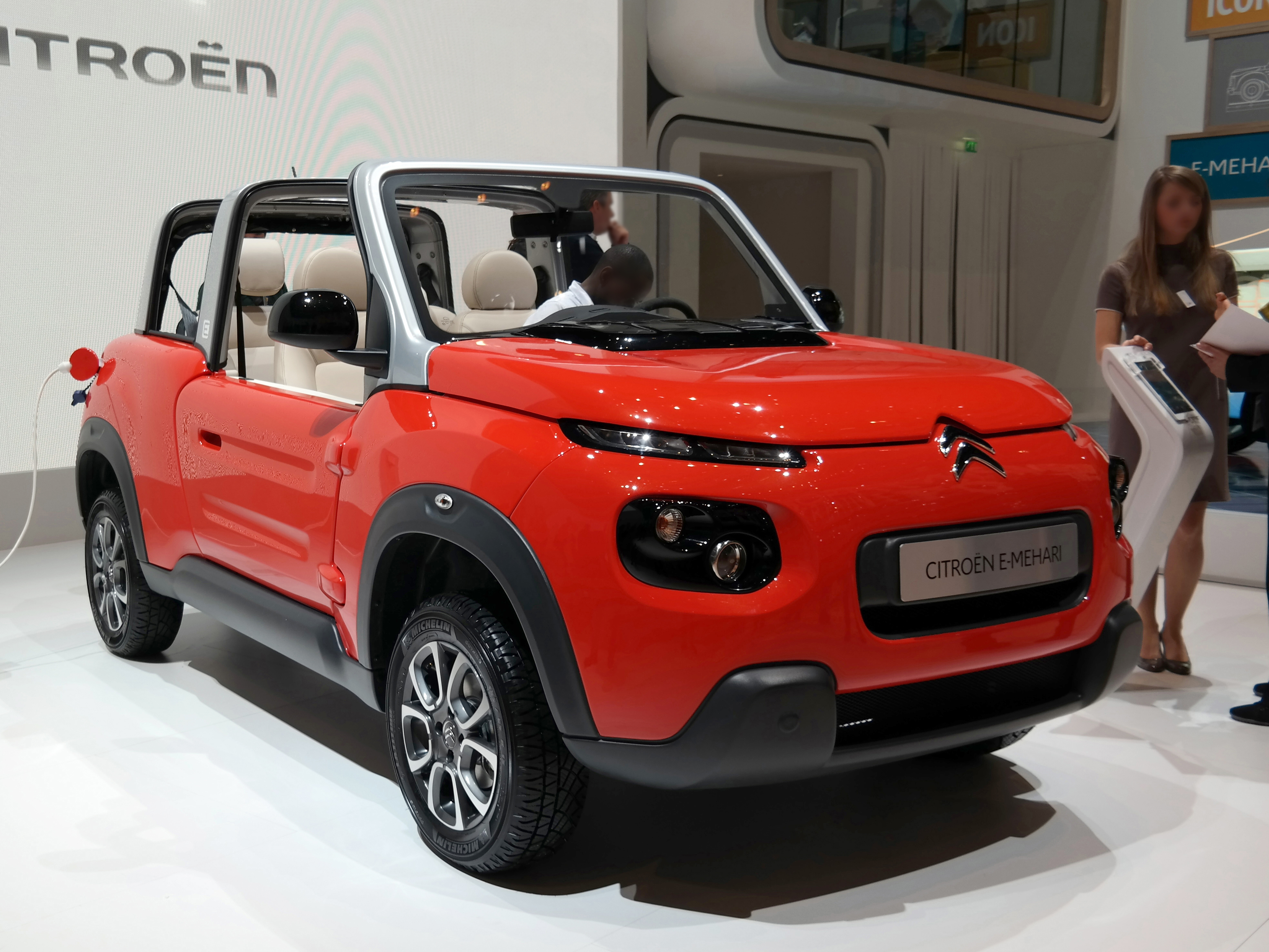 Geneva Motor Show 2016 (photo taken on the first press day)